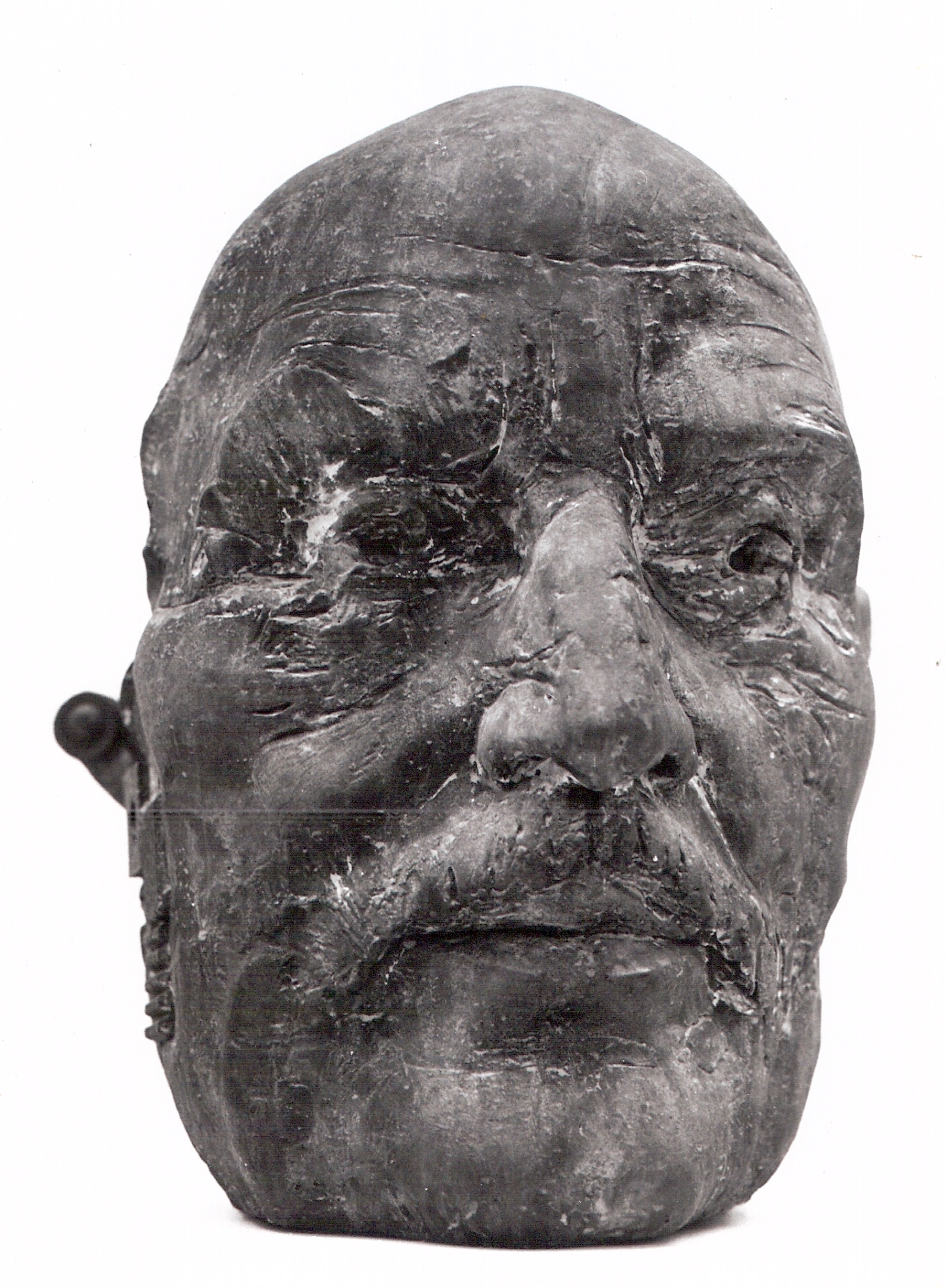 Sculpture by Juan Antonio Palomo in Alcalá University